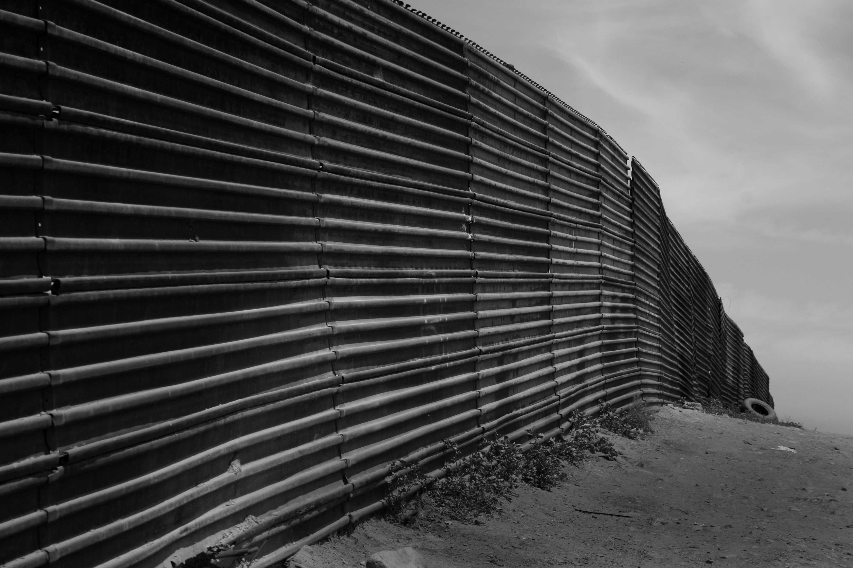 US-Mexico border at Tijuana, Baja California, Mexico; and California.